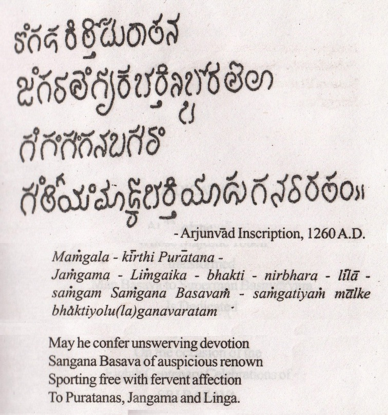 Arjunavad inscription of the Seuna king Kannara, dated 1260 A.D. Karnataka, India. This is one of the important inscription related to Basava and his family details. Names refernces Basavaraj and Sangana Basava.